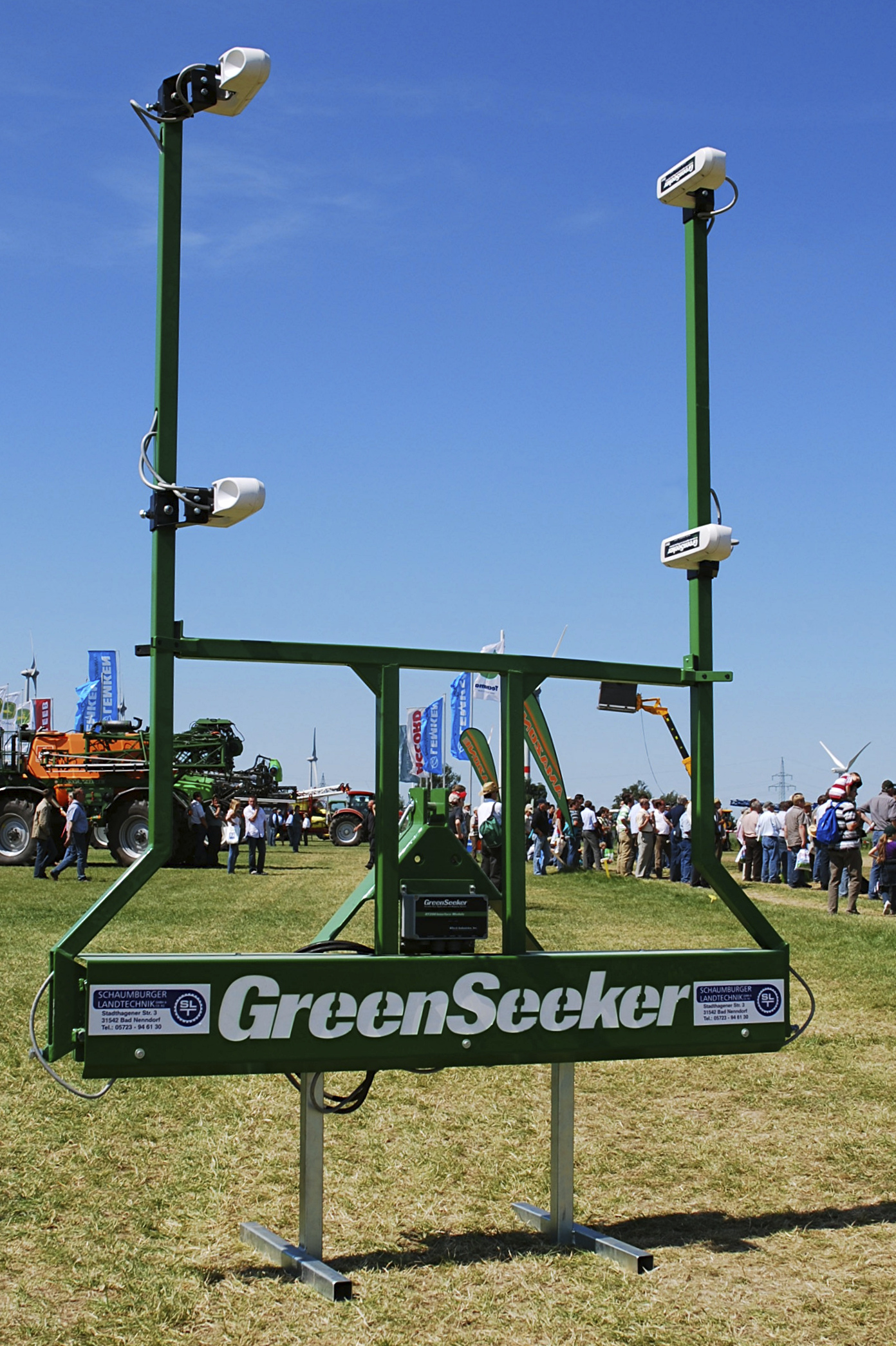 GreenSeeker RT200 (Variable Rate Application and Mapping System) of the USA-based manufacturer NTech Industries; DLG field days 2010, Gut Bockerode, Springe-Mittelrode, Lower Saxony, Germany. – GreenSeeker is a flexible tool that works together with GPS receivers and sprayer/spreader controllers. It measures (independent of daylight) crop condition (plant health/biomass/vigor), maps the results if needed and provides the ability to variably (specific to small subareas of a field) apply pesticides/fertilizers in real time. The GreenSeeker system consists of some metal frame structures (here: built for mounted use), an Interface Module (visible in front of the A-frame here), several (here: four) optical sensors, and a User Interface equipped unit with special software (usually inside the vehicle, not visible here).